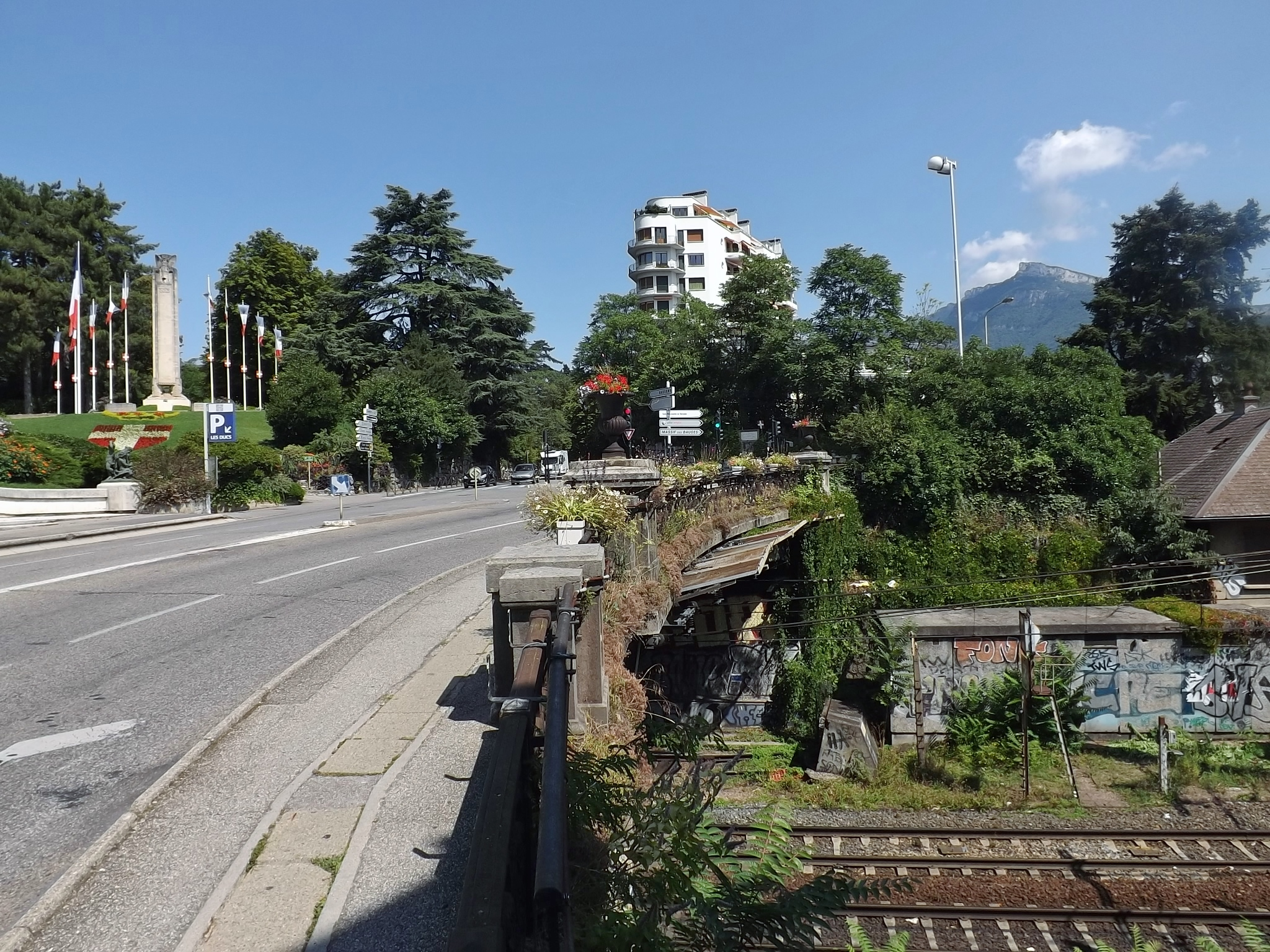 Sight of the pont des Amours bridge over the Maurienne railway line, at the foot of the Nézin/Lemenc hill, in Chambéry, Savoie, France.